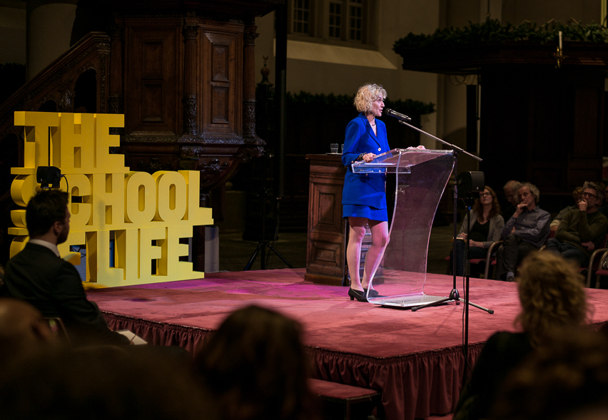 Martha Nussbaum bij The School of Life